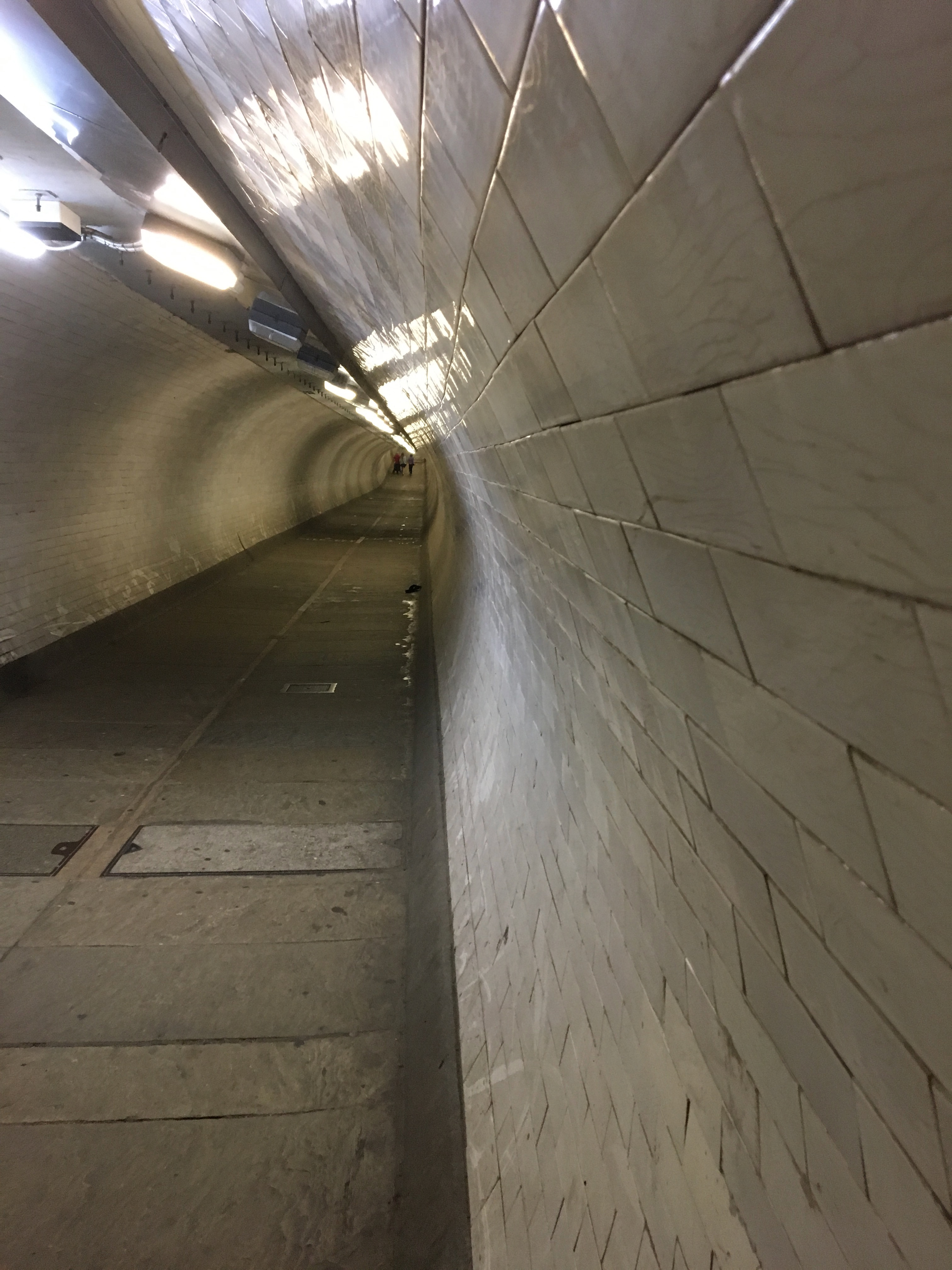 The Greenwich Foot Tunnel in May 2018